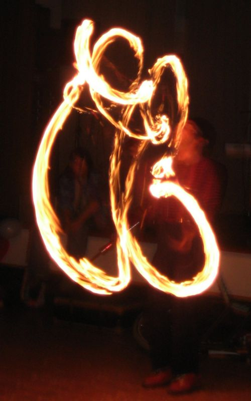 Jonglage with three torches.